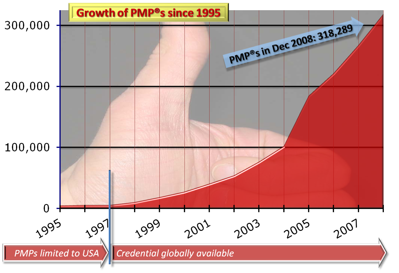 Development of PMP® Credential Holders from 1995 to 2008